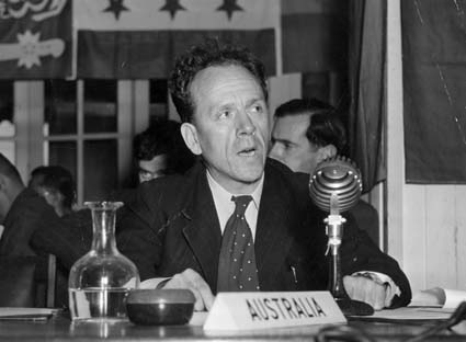 Herbert Cole Coombs (Nugget Coombs, 1906-97) at Lapstone Conference on the admission of Indonesia to the Economic Commission for Asia and the Far East (ECAFE).